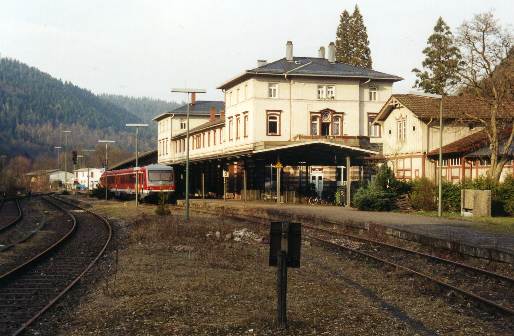 Bad Wildbad railway station with Class 628 DMU